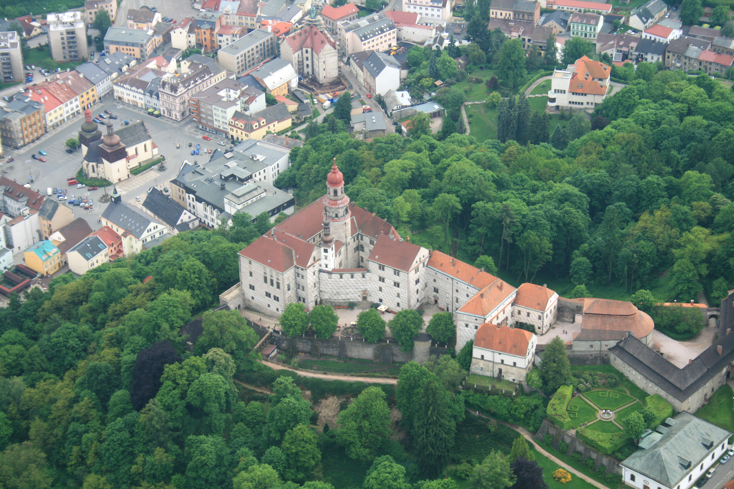 Central part of town and castle in Náchod from air, eastern Bohemia, Czech Republic